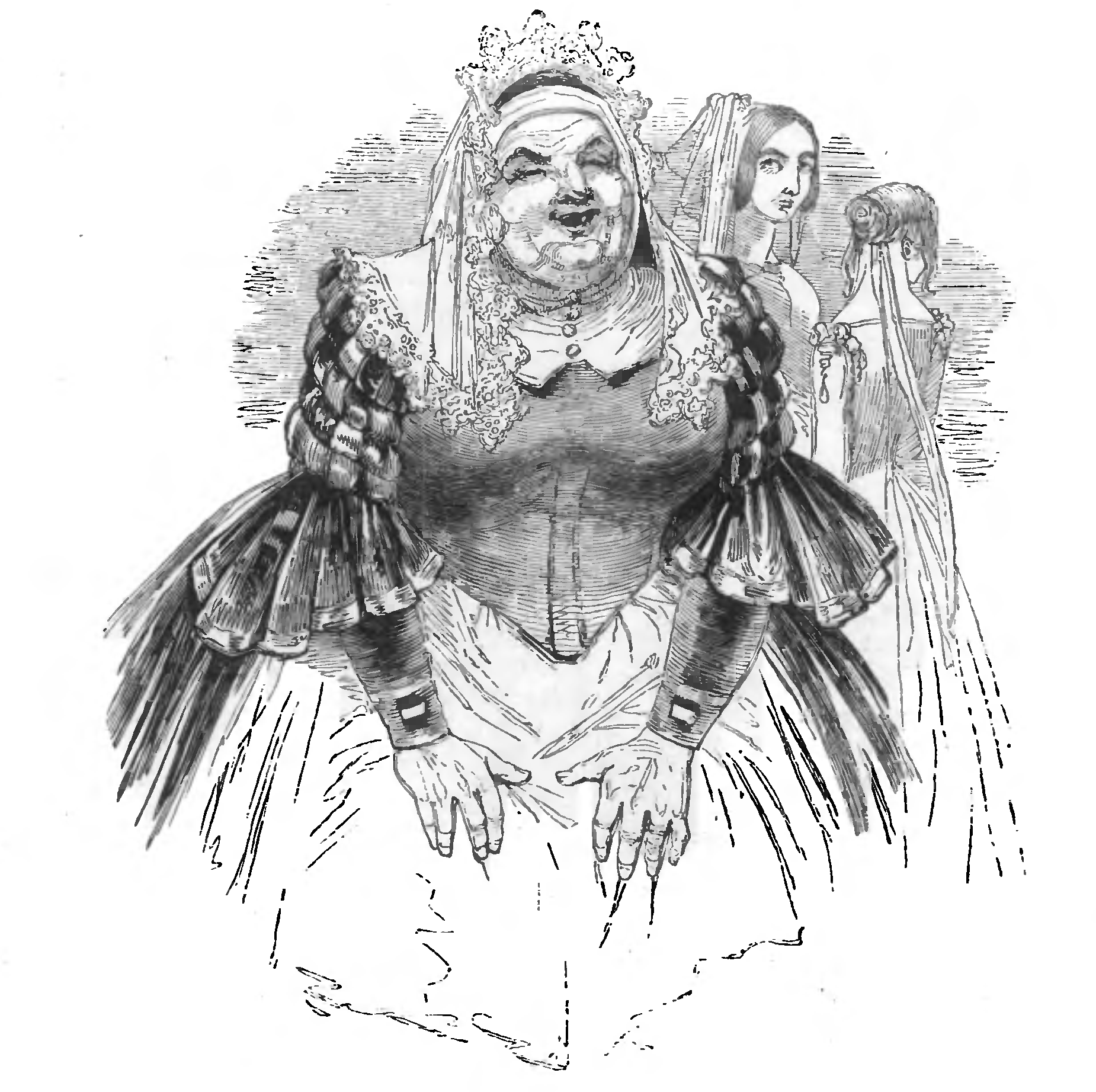 Woodcut 'Yet I cannot chose but laugh' from "Romeo and Juliet" from the 1847 edition of The Illustrated Shakespeare